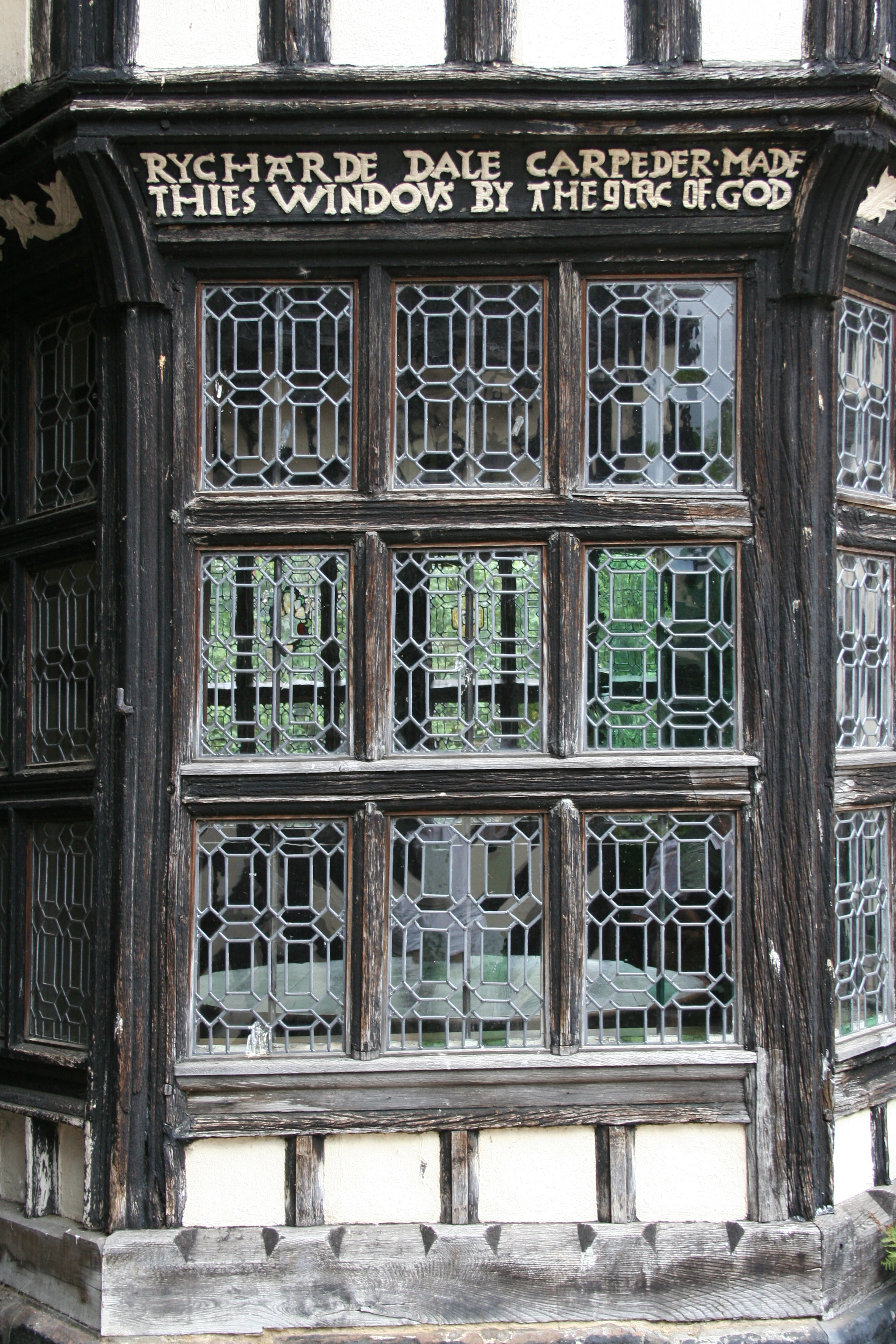 Section of the Withdrawing Room's bay window at Little Moreton Hall in Cheshire, England, showing an inscription identifying the carpenter.